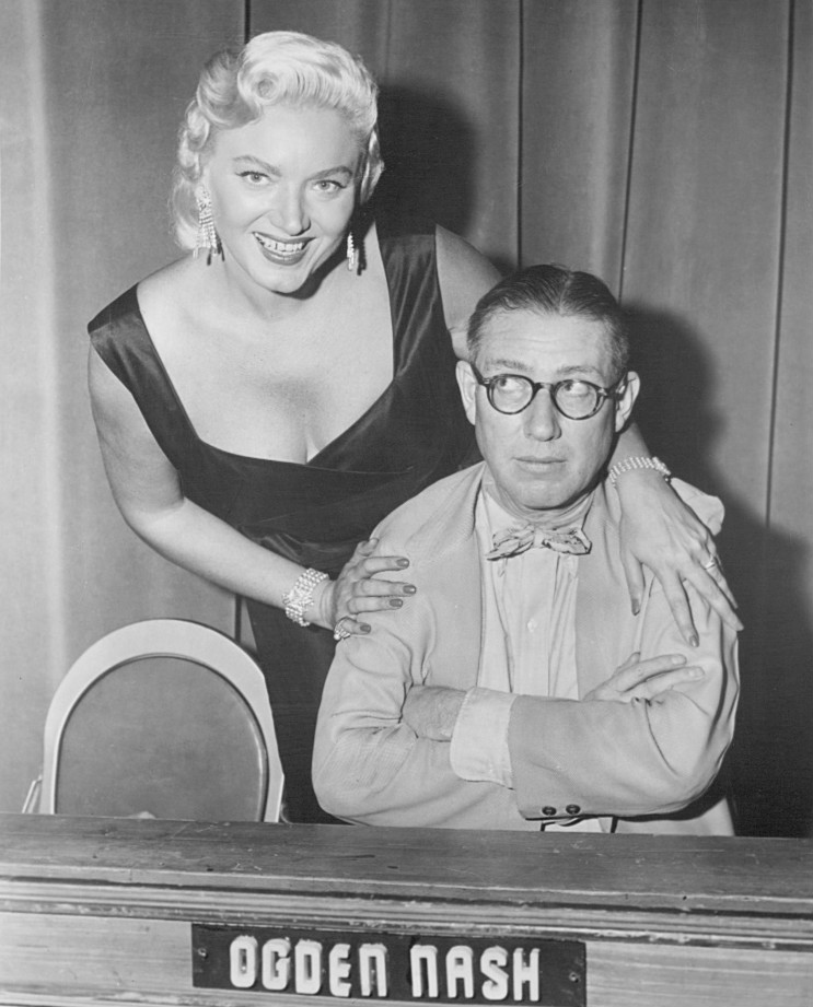 Photo of panelist Ogden Nash and Dagmar from the television game show Masquerade Party. The item has no copyright markings on it as can be seen in the links above.